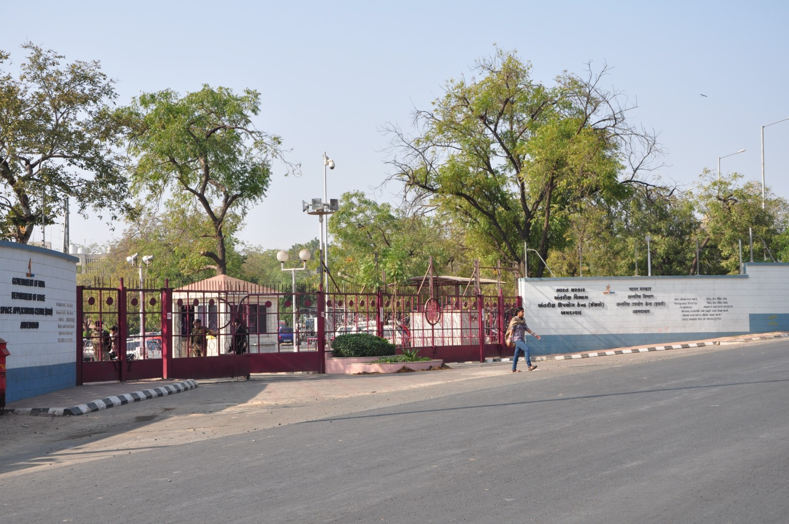 Main Entrance of Space Applications Centre, ISRO